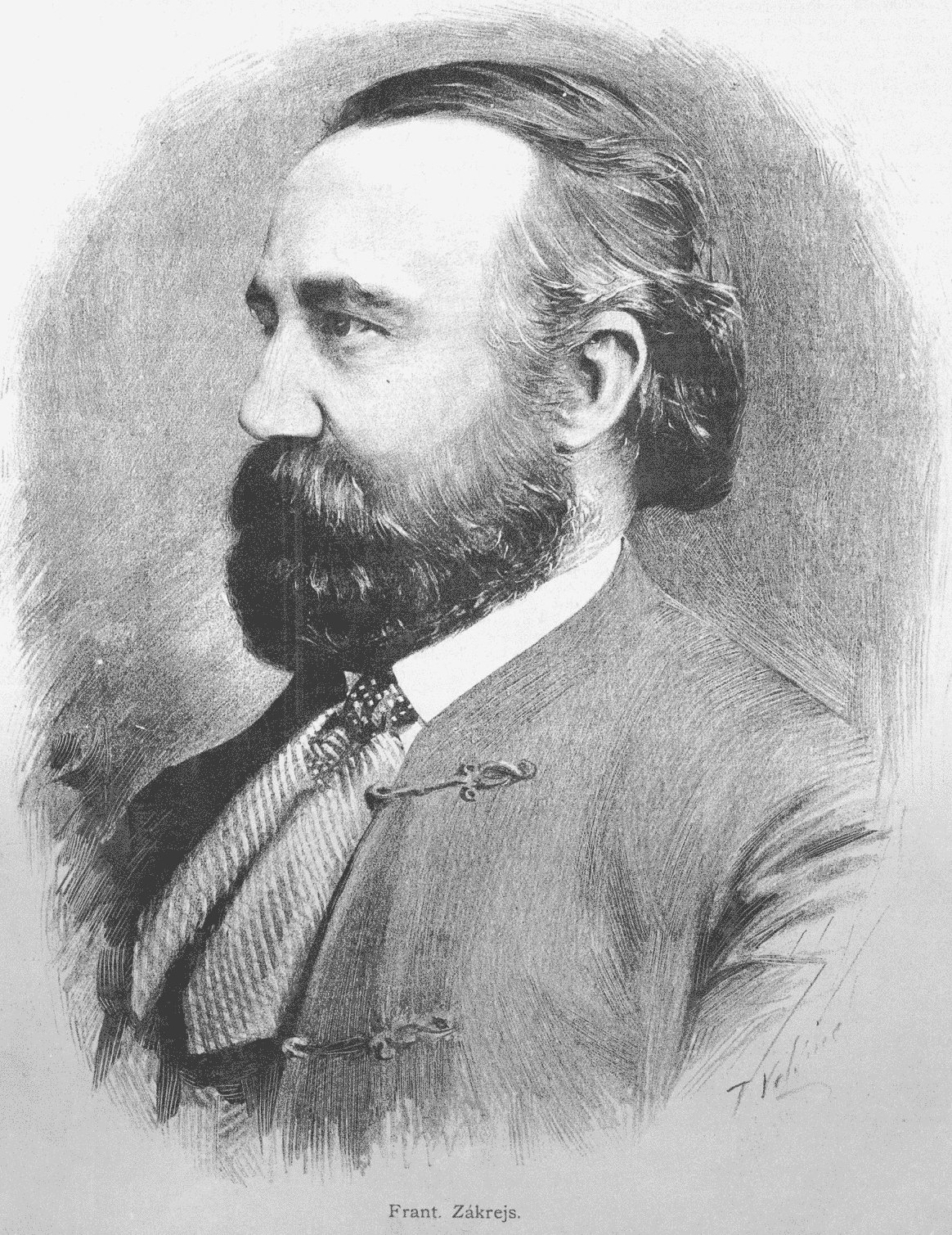 Portrait of František Zákrejs, Czech writer.